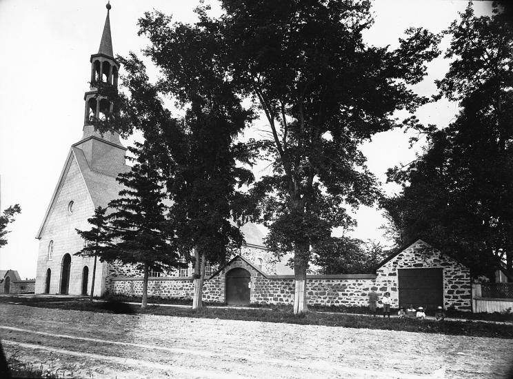 Photograph, St. Matthias Church, Chambly, QC, about 1900, N. M. Hinshelwood, Silver salts on glass - Gelatin dry plate process - 16 x 21 cm